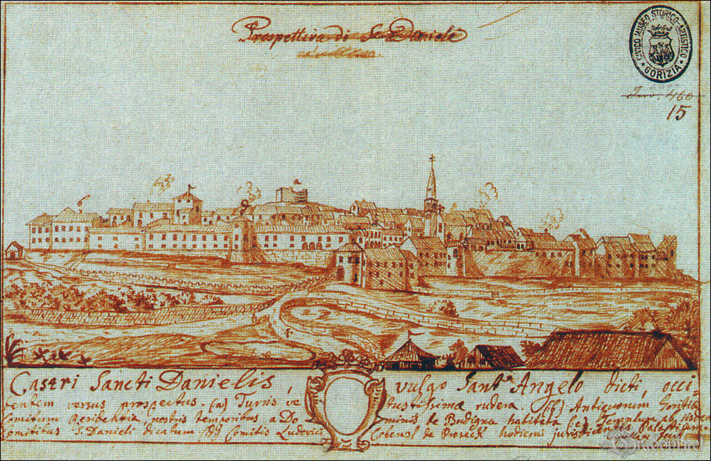 Štanjel Castle.